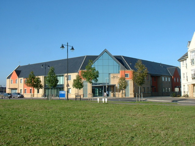 Cambourne Library and Health Centre, near to Cambourne, Cambridgeshire, Great Britain. Cambridgeshire County Council trading standards are also based in this building.